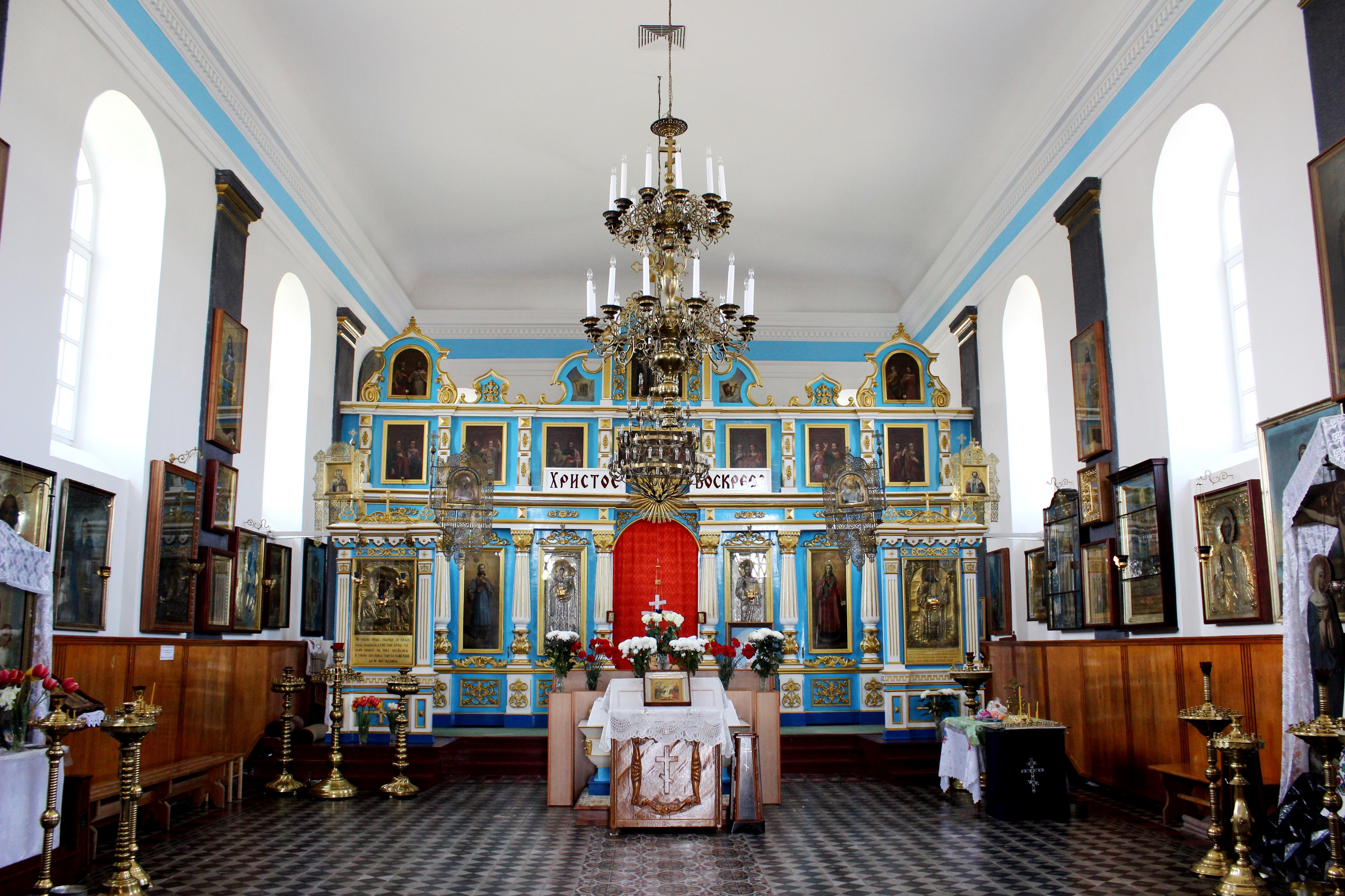 Iconostasis of Church of Saint Anne in Stoubcy